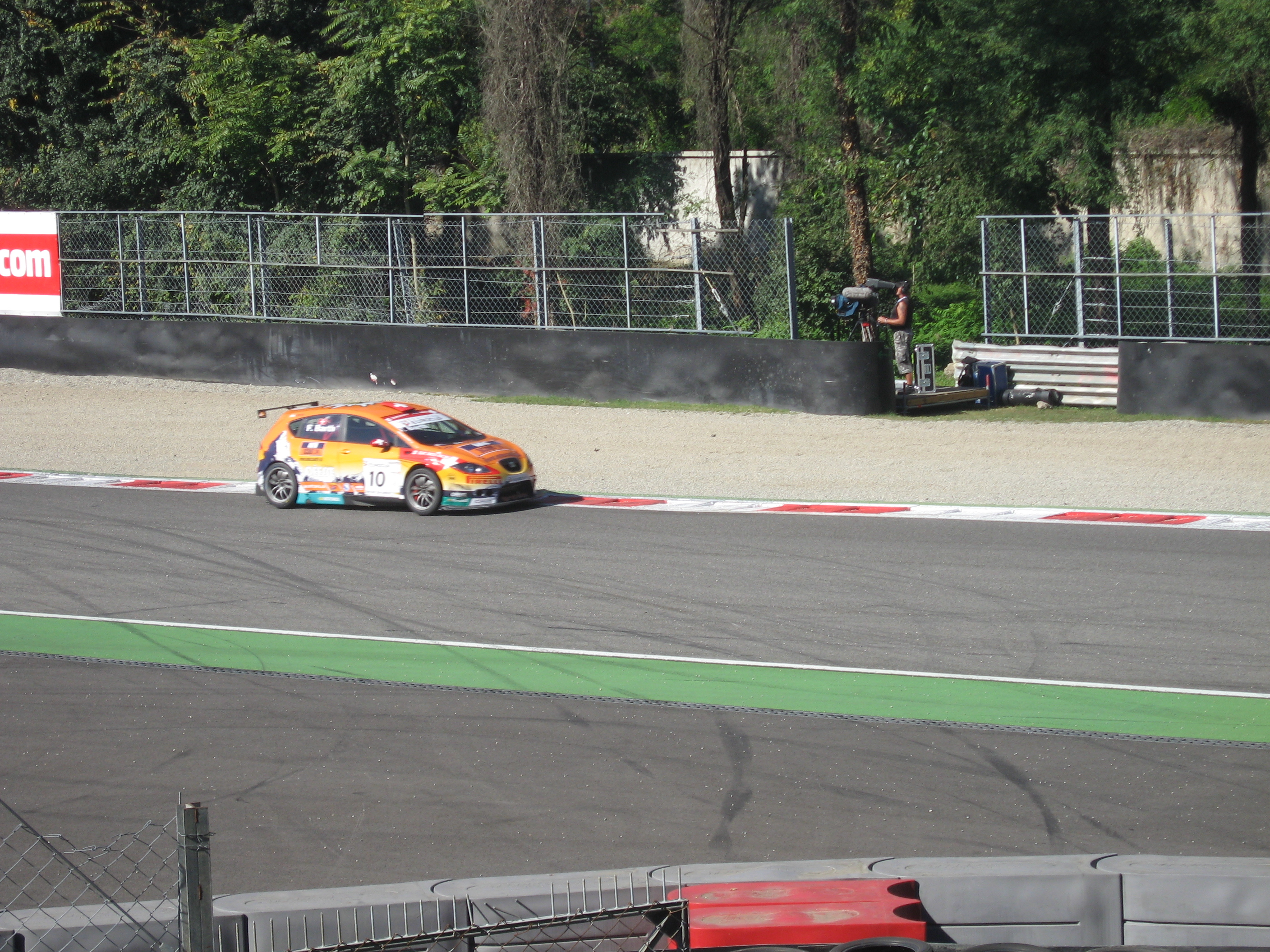 Fredy Barth